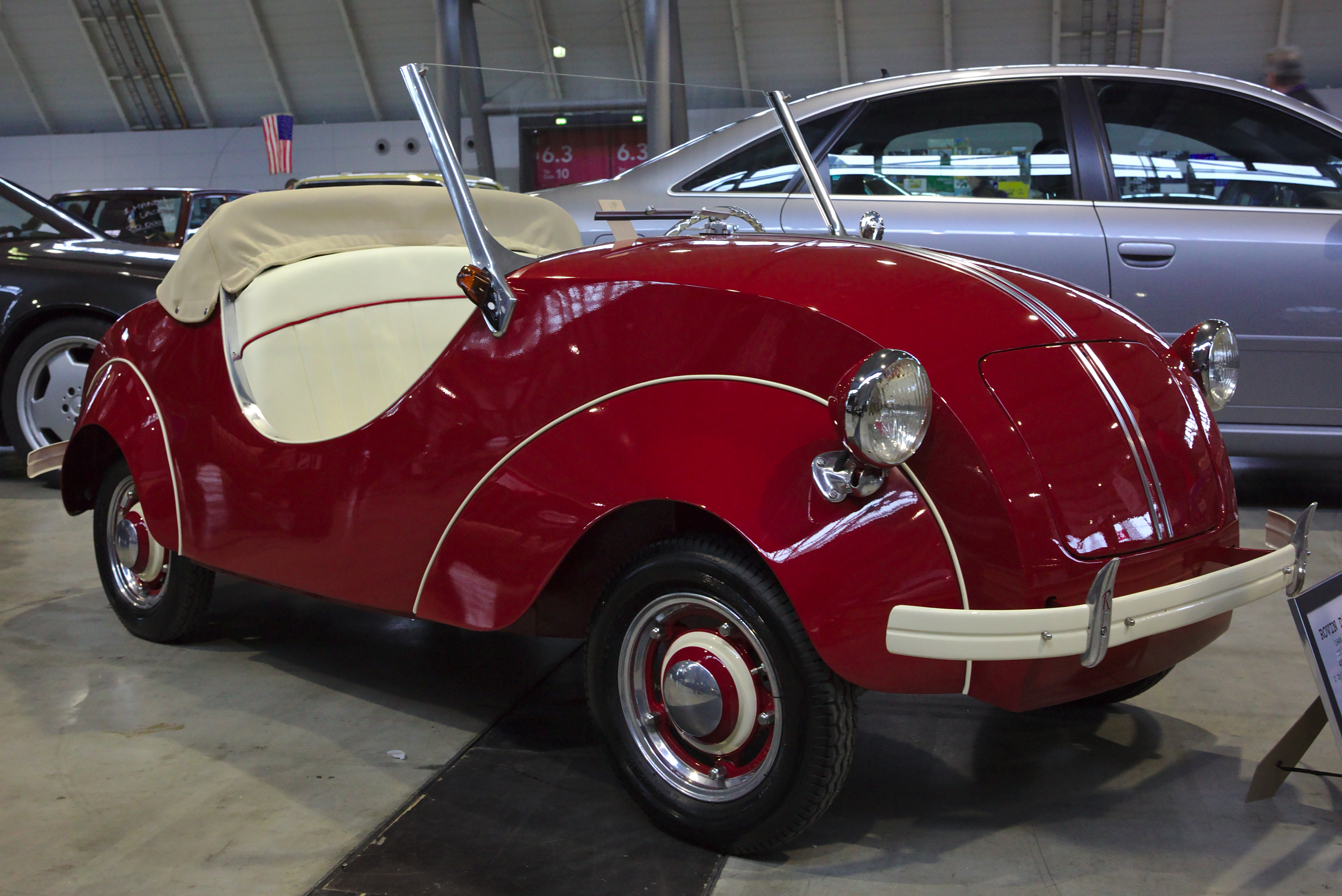 Rovin D2 at Retro Classics 2018